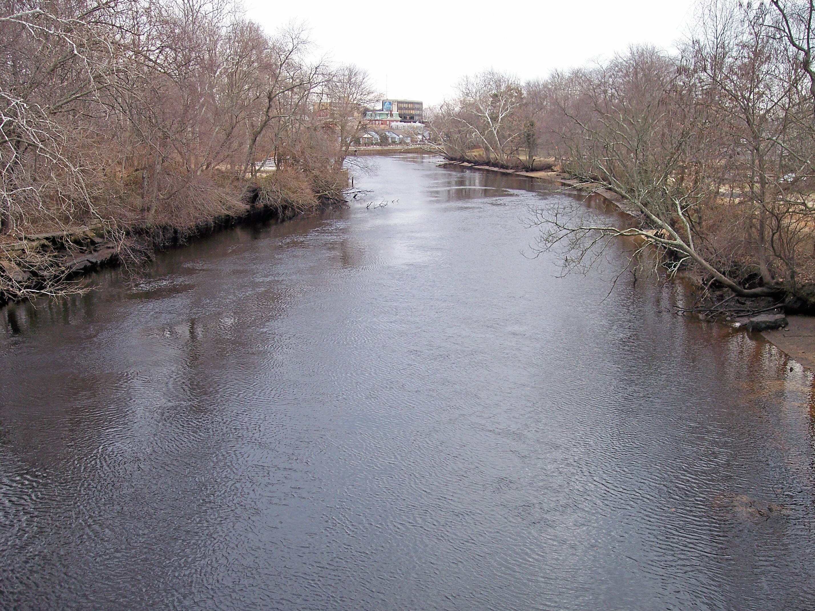 The Maurice River as viewed downstream from North Brandriff Avenue in Millville, New Jersey.